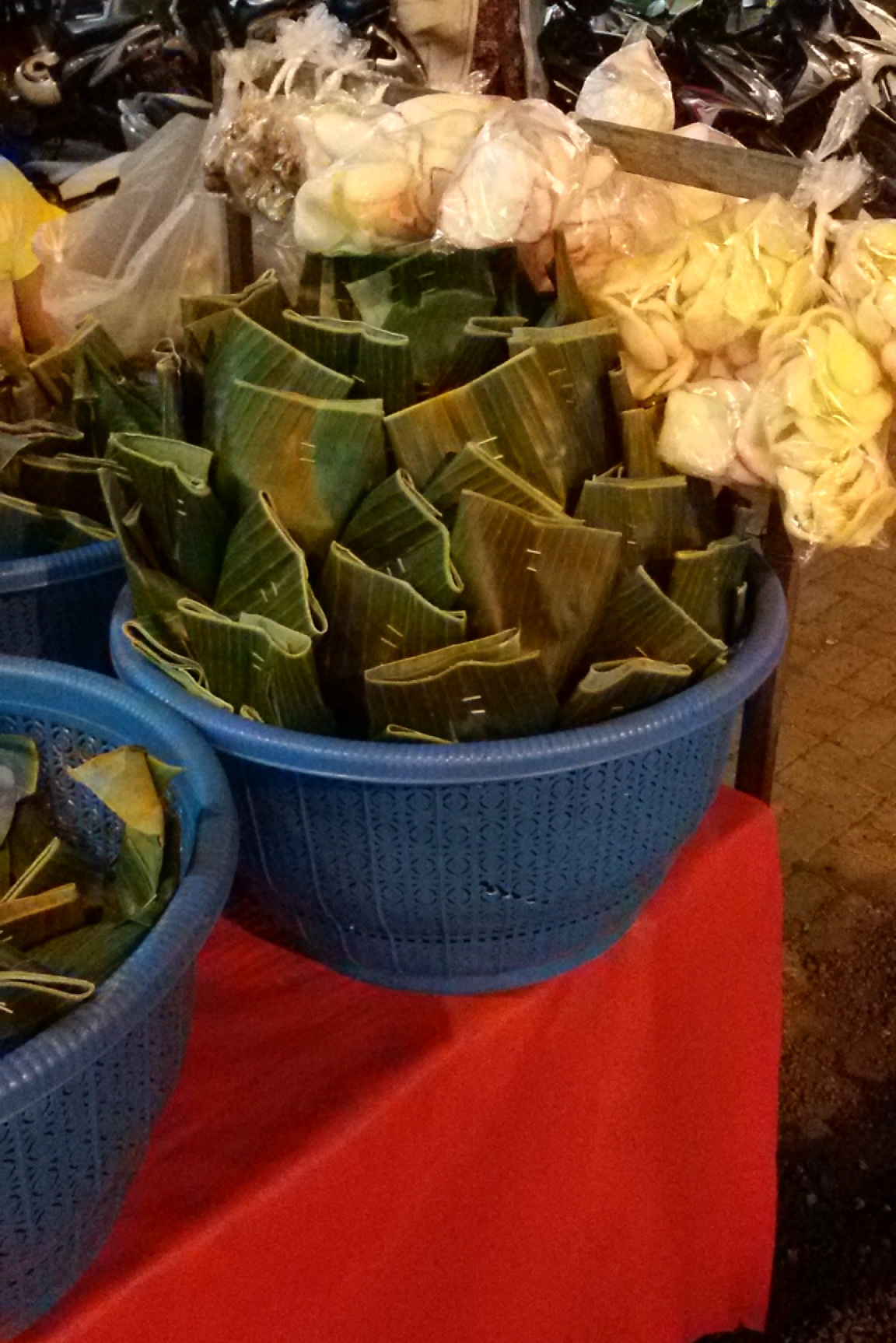 A stall sells nasi Jinggo at Denpasar, Bali